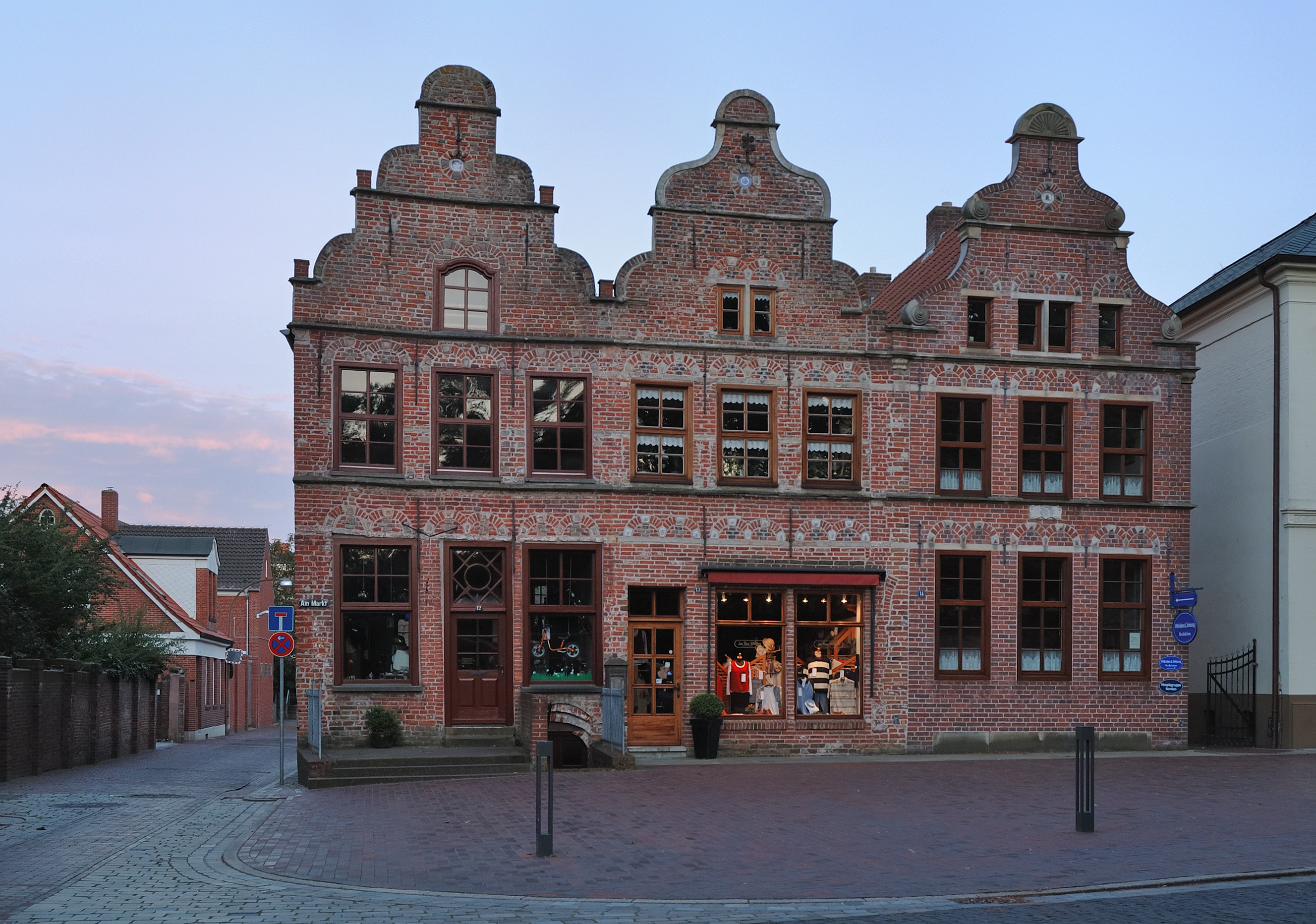 The "Three Sisters" in Norden, built around 1600.